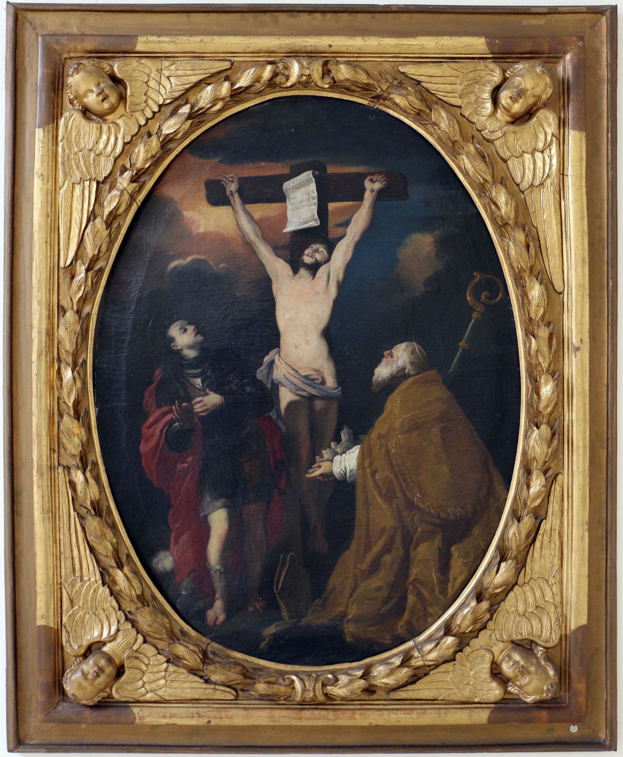 Crucifixion with ss. Vitale and Apollinare